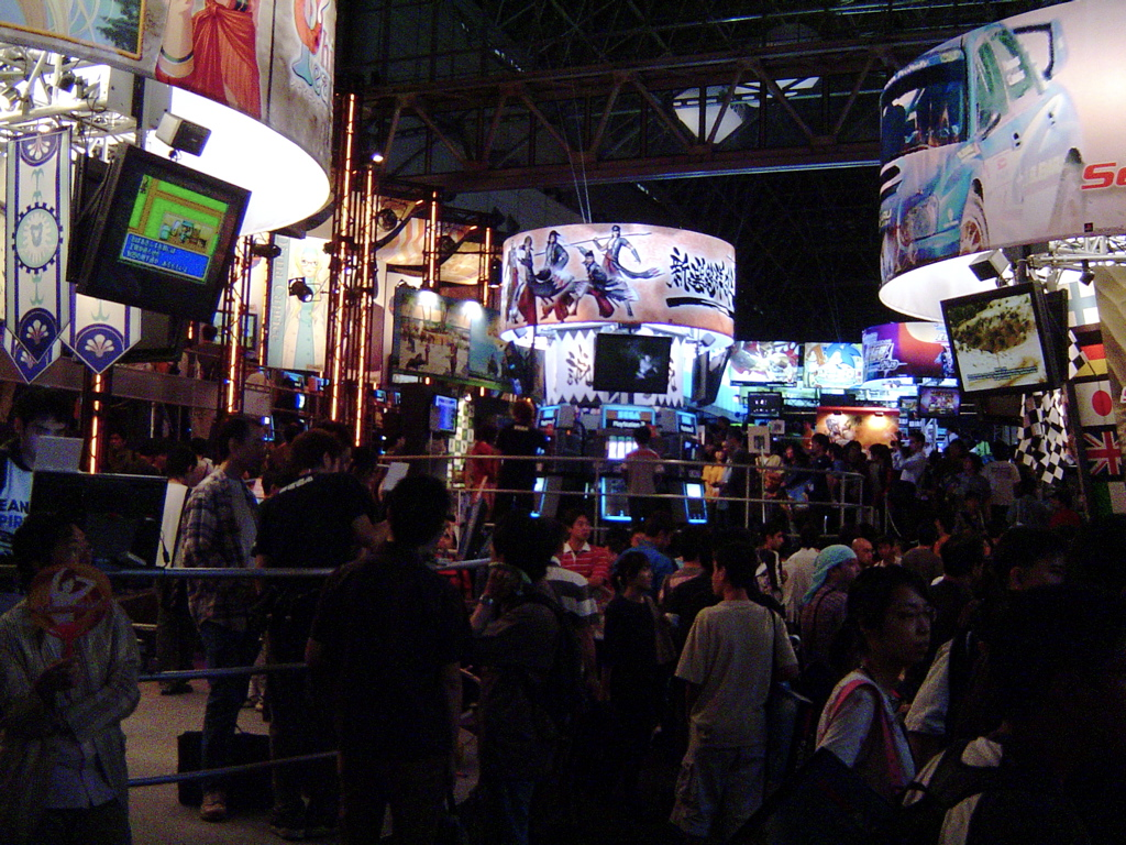 Sega booth, Tokyo Game Show 2004